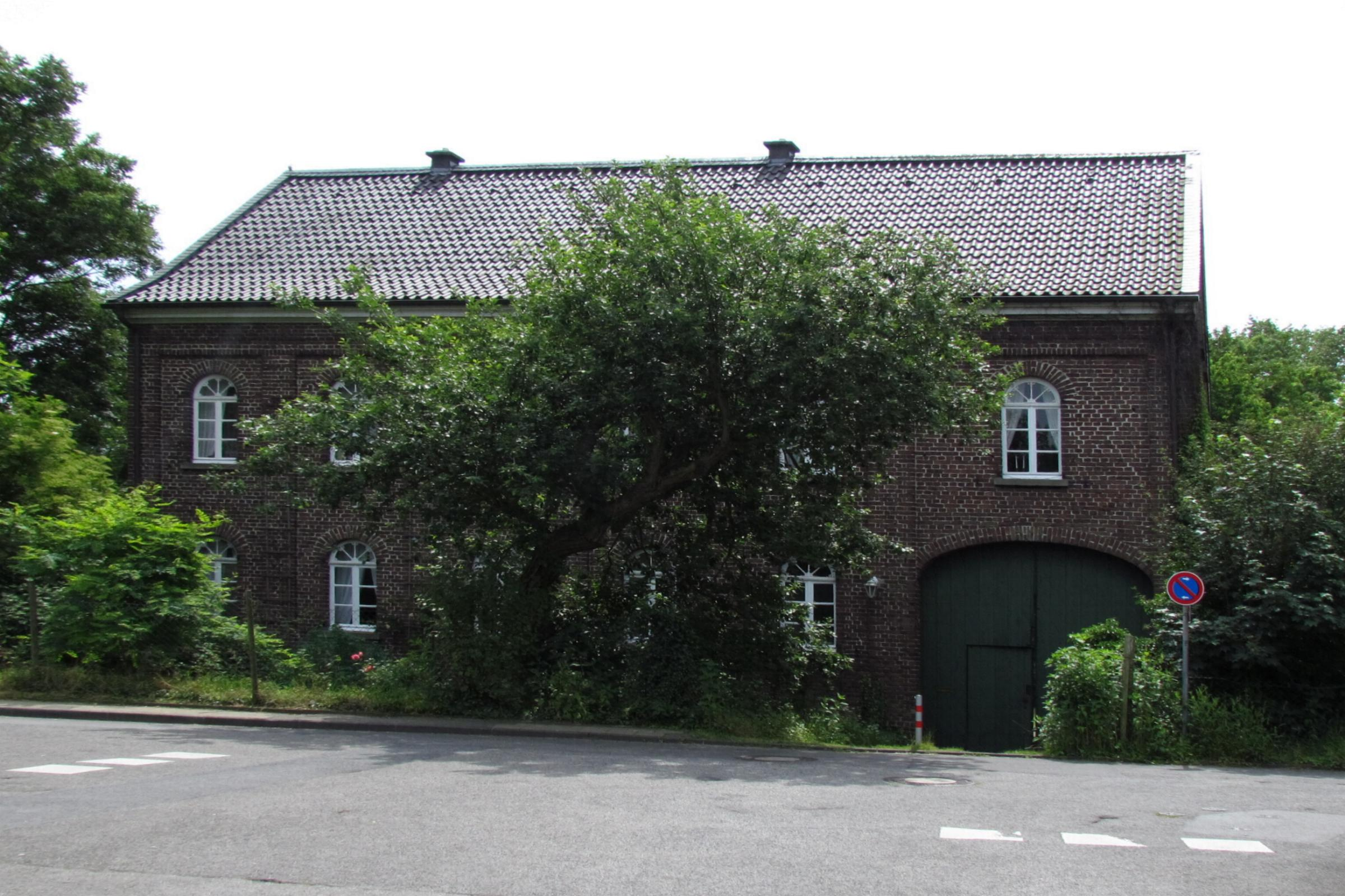 This is a photograph of an architectural monument.It is on the list of cultural monuments of Korschenbroich